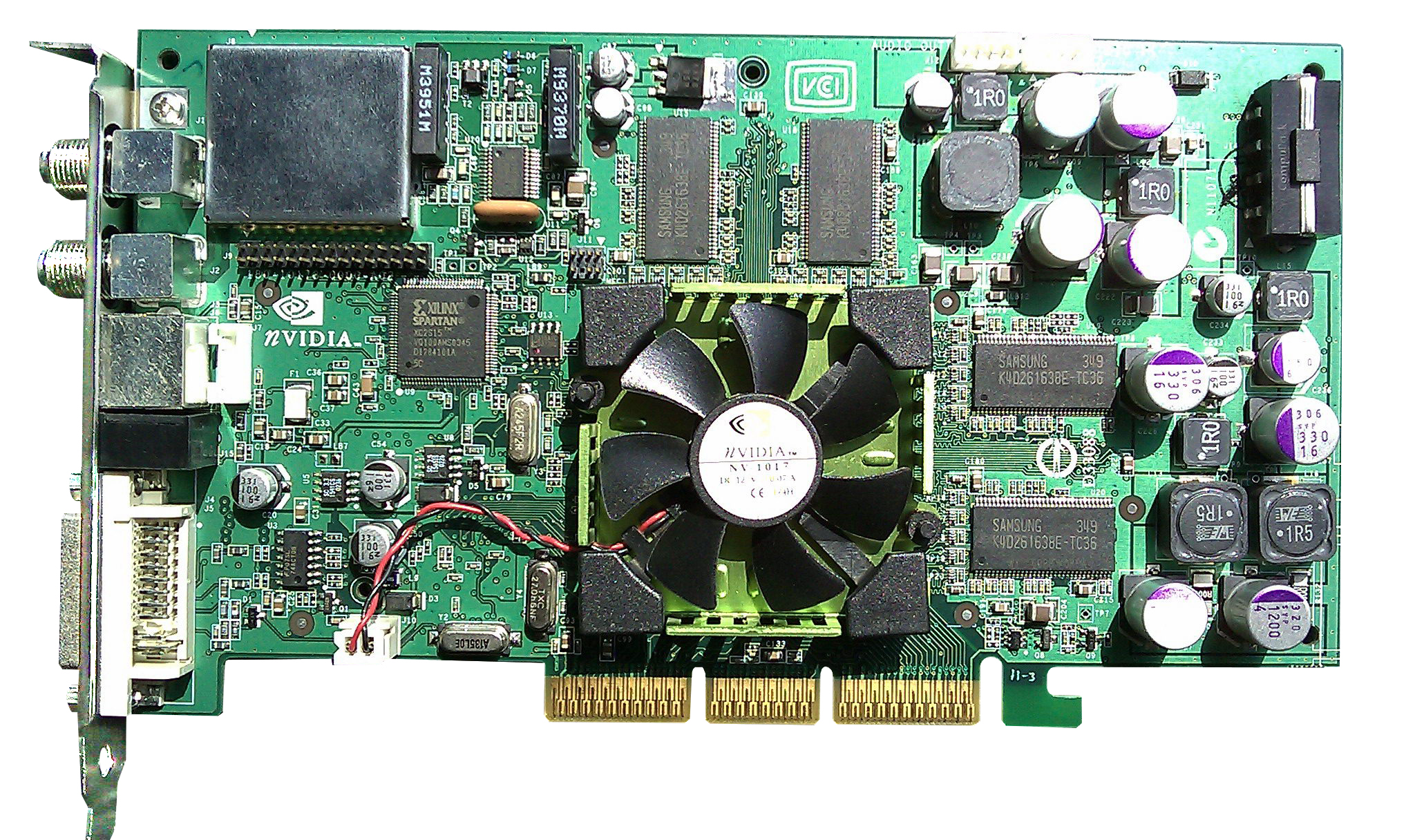 NVIDIA engineering sample graphic card